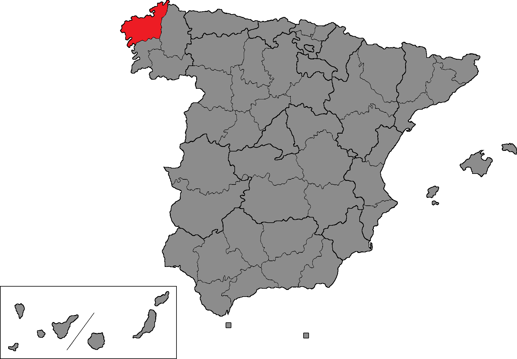 Spanish Congress of Deputies district of A Coruña.